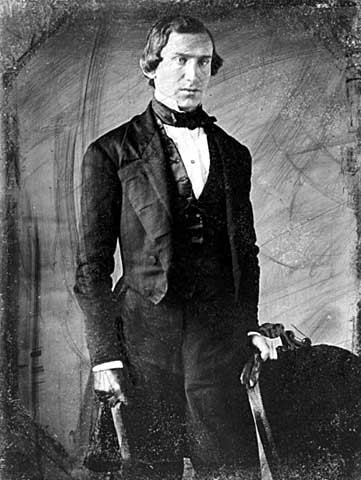 Portrait of Edward Duffield Neill